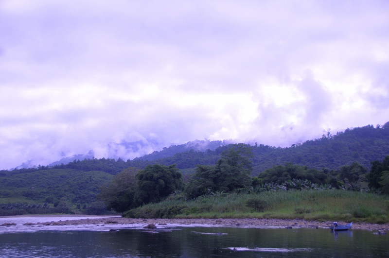 Sunrise at Long Pujungan, Kayan Mentarang National Park.